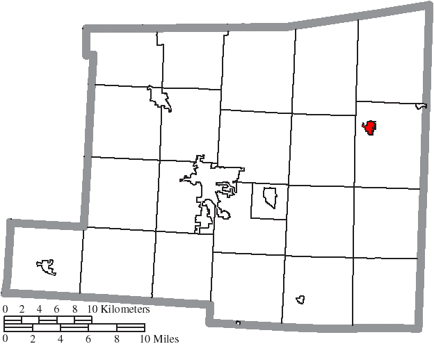 Map of the municipal and township boundaries of Knox County, Ohio, United States, as of the 2000 census, with the location of the village of Danville highlighted. Township borders are shown only in unincorporated areas in order to differentiate incorporated and unincorporated areas more clearly.